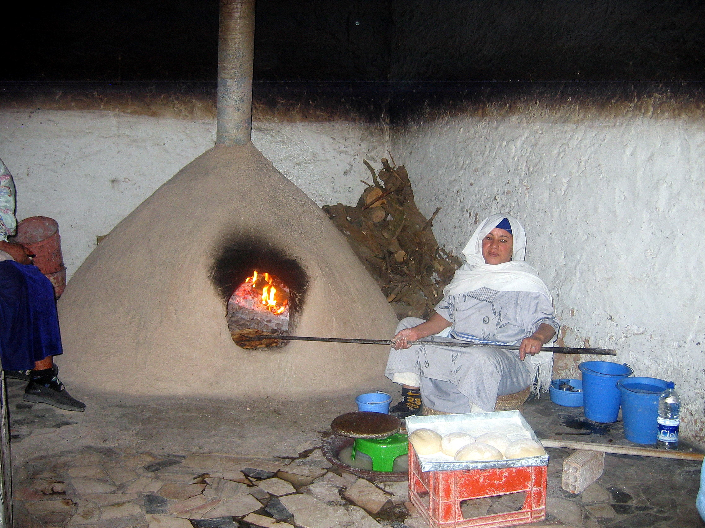 Traditional Moroccan clay oven